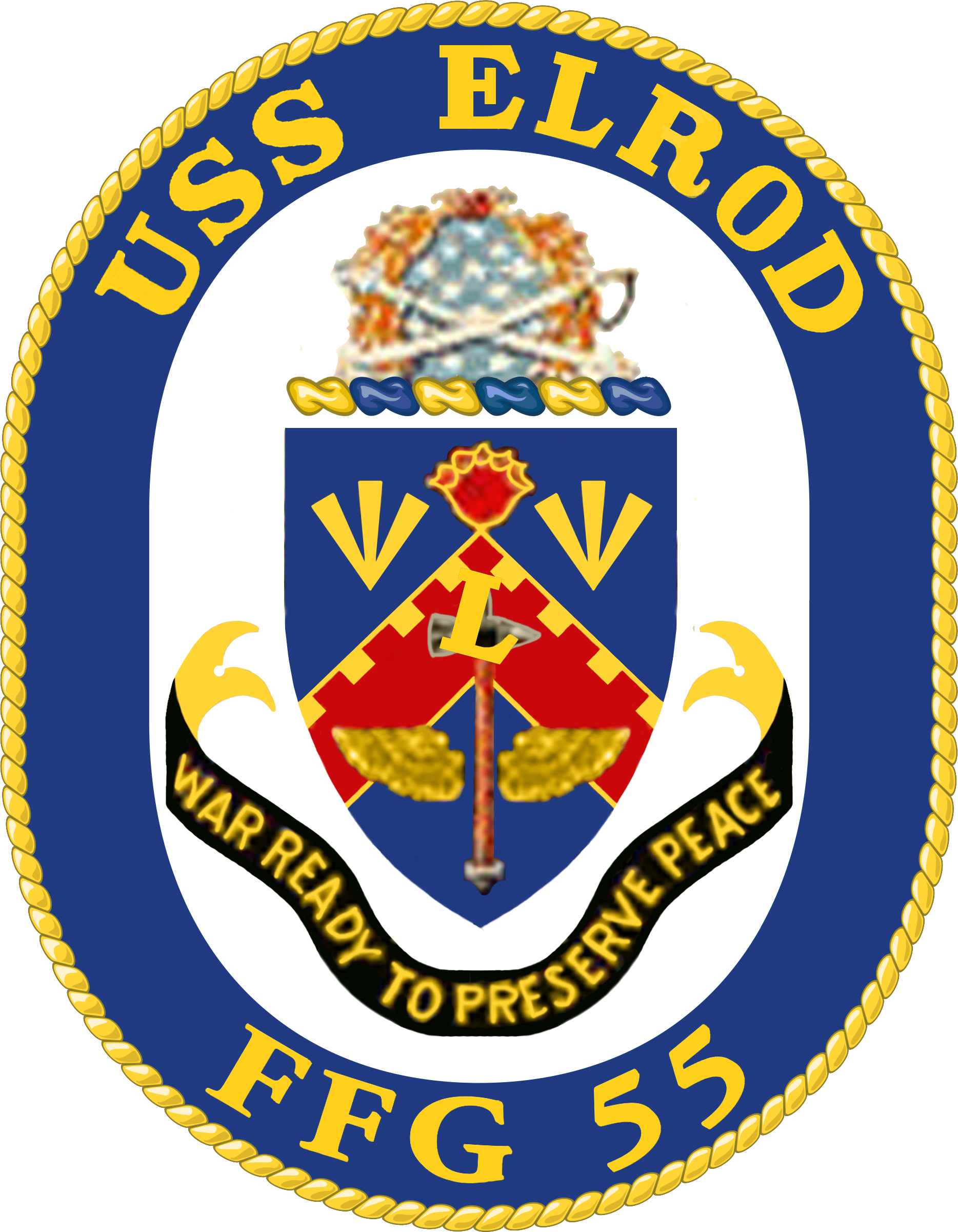 Emblem of the USS Elrod (FFG-55).